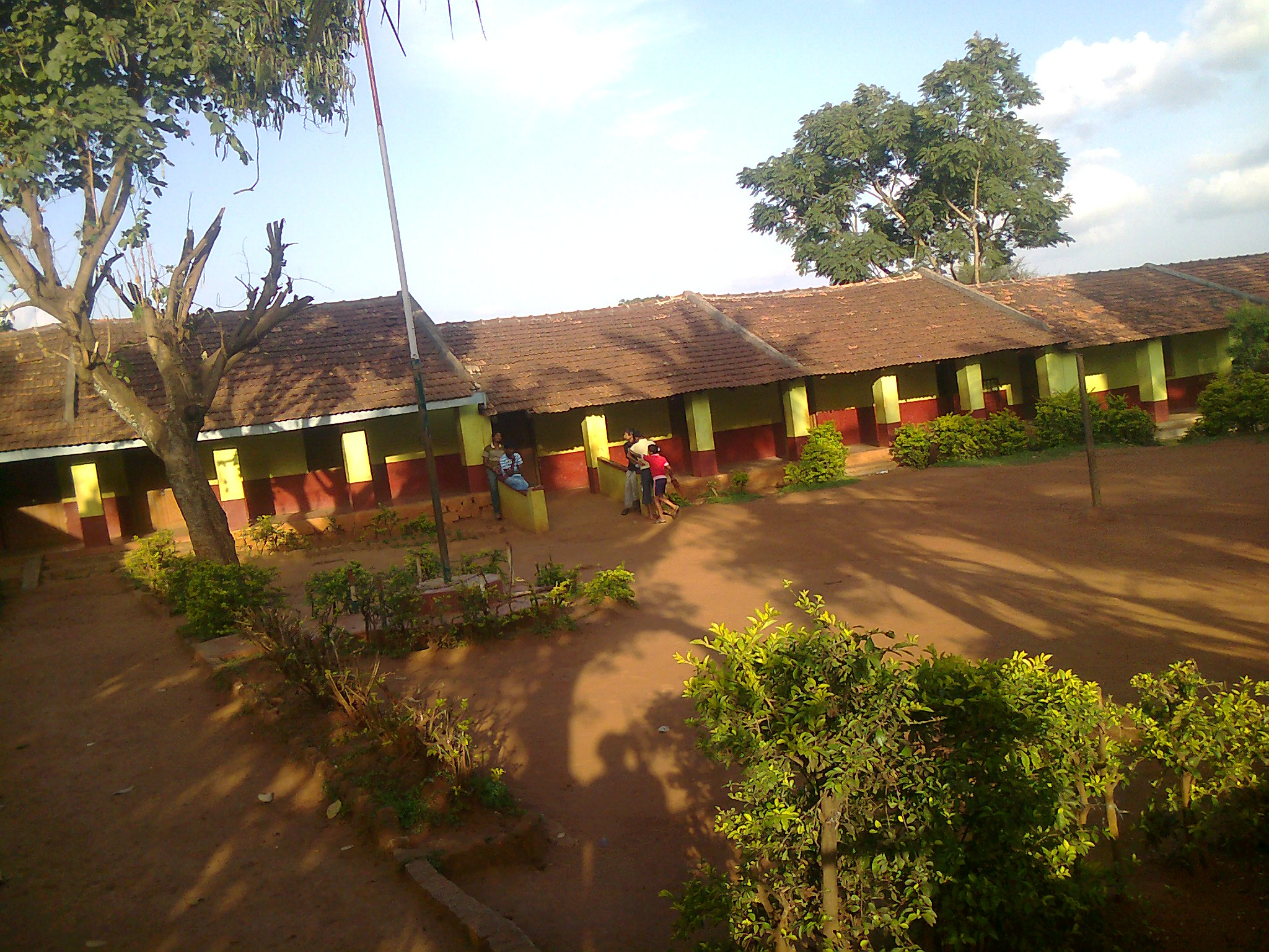 Housing Board township, Chikmagalur, India.